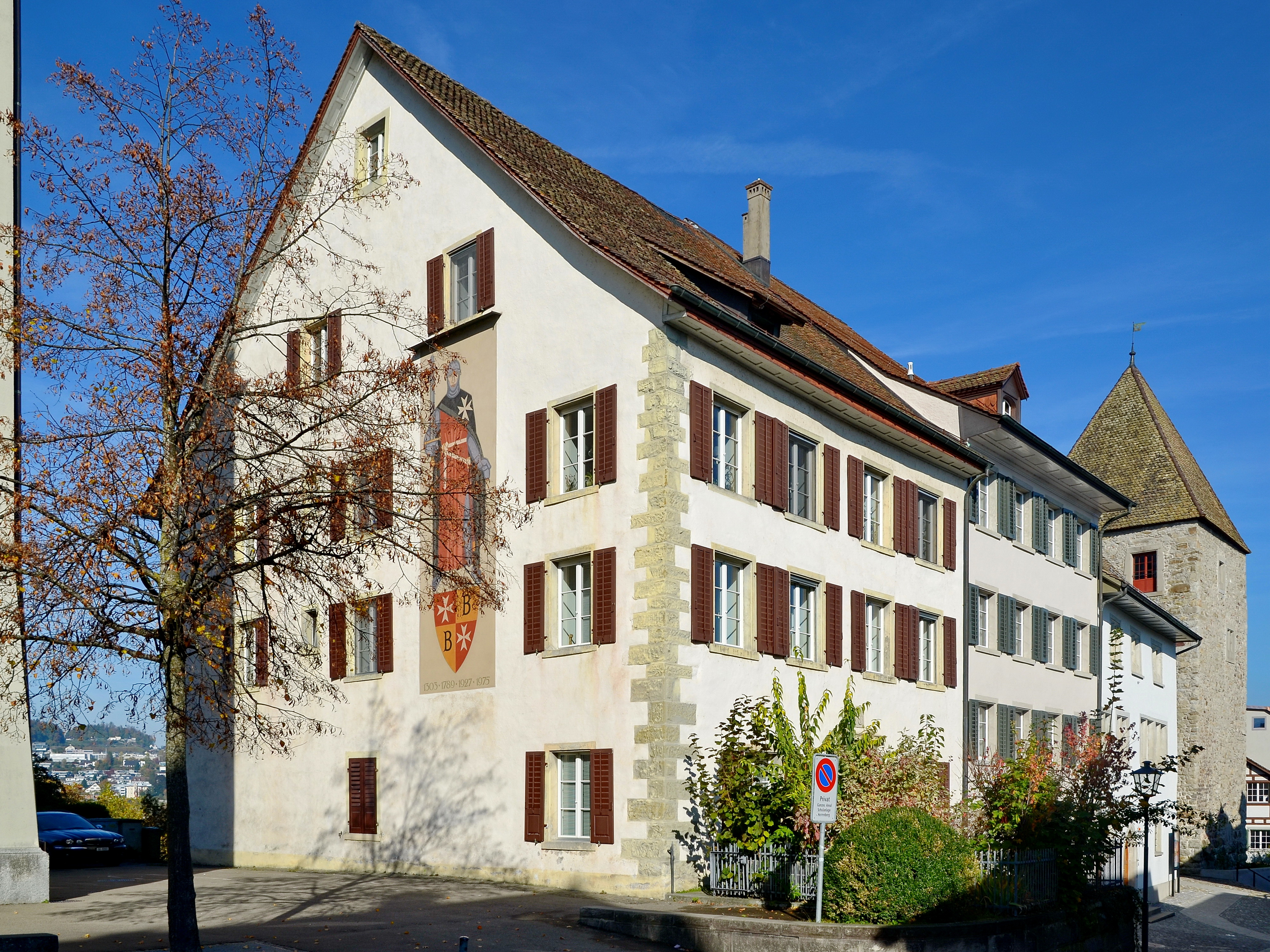 Rapperswil (Switzerland) : Bubikerhaus building, the former Bailiff house of Ritterhaus Bubikon, and Stadtmuseum Rapperswil, Rapperswil's museum of local history.